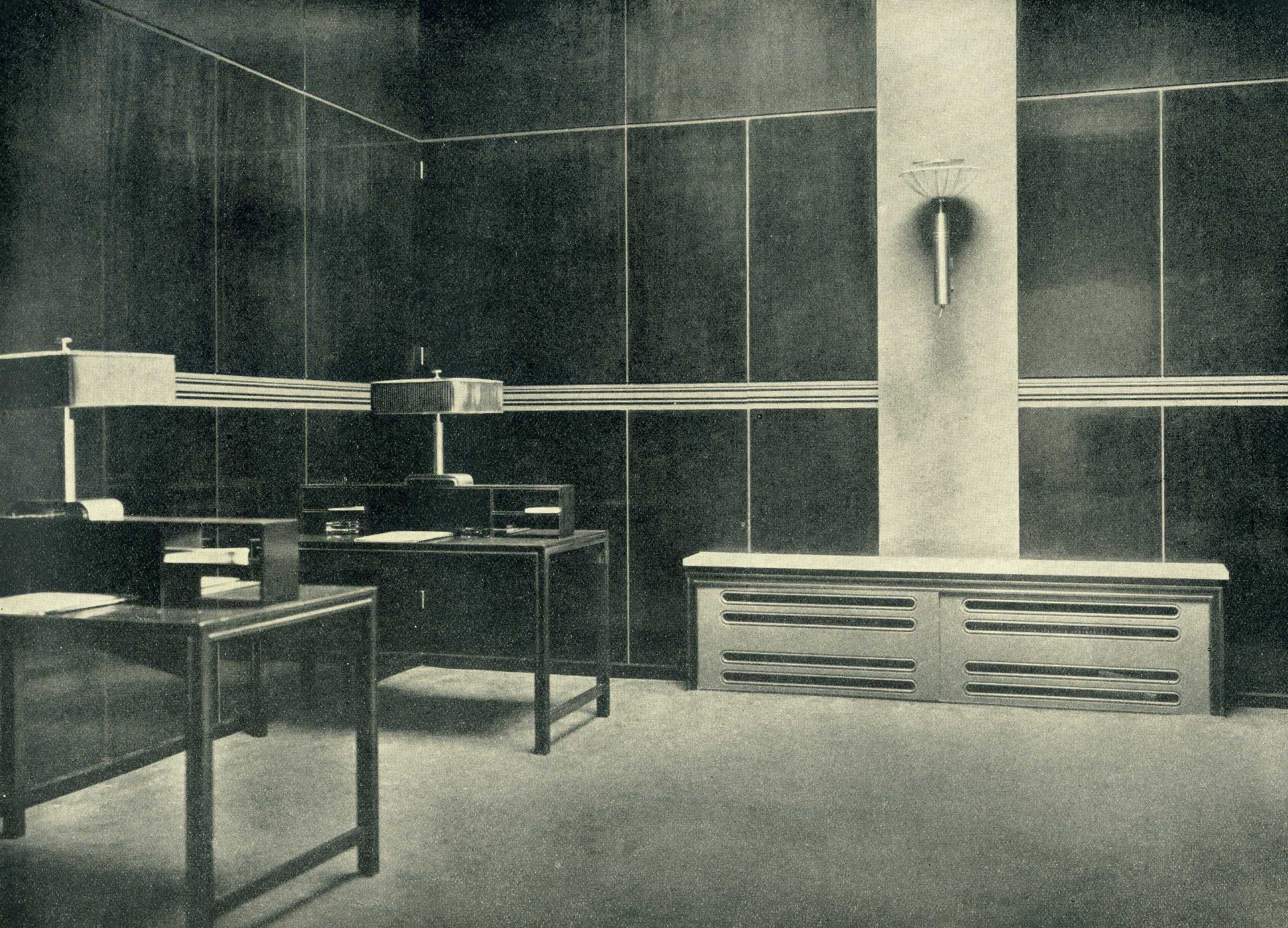 t